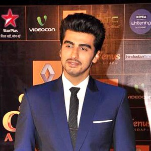 Arjun Kapoor at the Star Guild Awards 2013